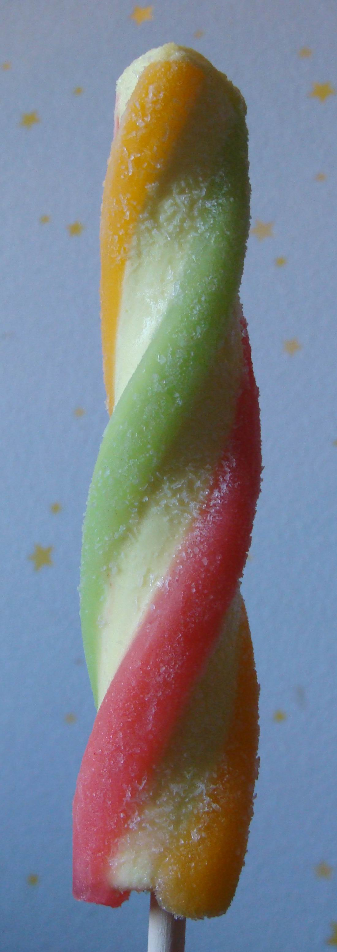 Ice cream "Eczo" (Russia)